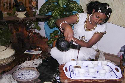 Eritrean coffee ceremony at the ETSA exhibition.